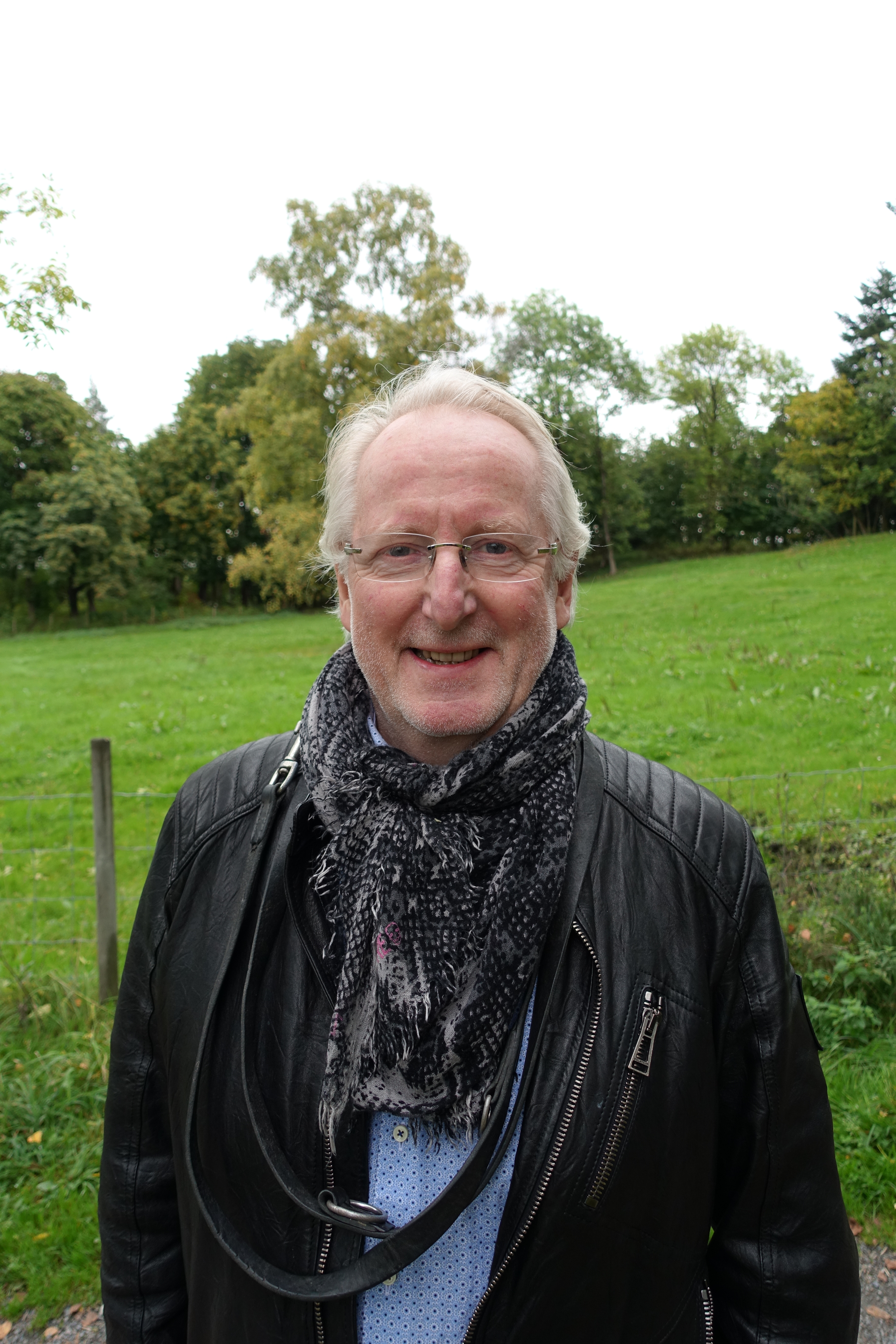 The Norwegian chef Eyvind Hellstrøm, outdoor at Bygdøy in Oslo